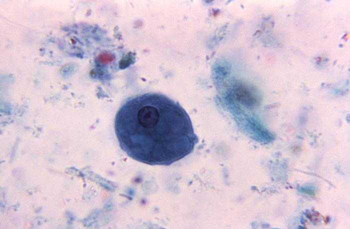 This image is in the public domain and thus free of any copyright restrictions. Courtesy of prep4md